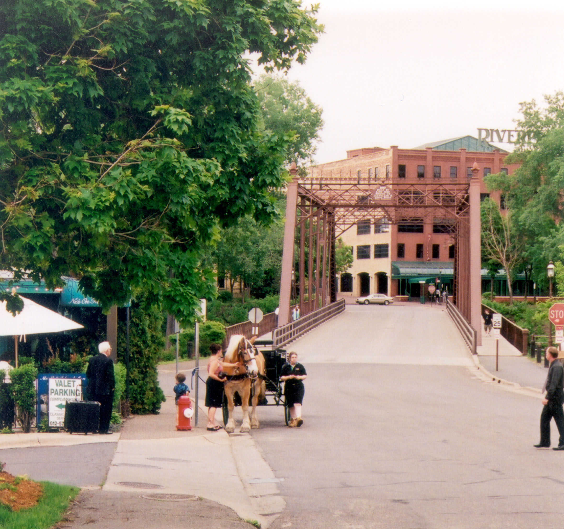 Visitors get ready for a ride in a horsedrawn carriage near the Nicollet Island Inn. Nicollet Island, Minnesota. The Hitching Co., based out of Minneapolis provides these rides daily throughout the summer.